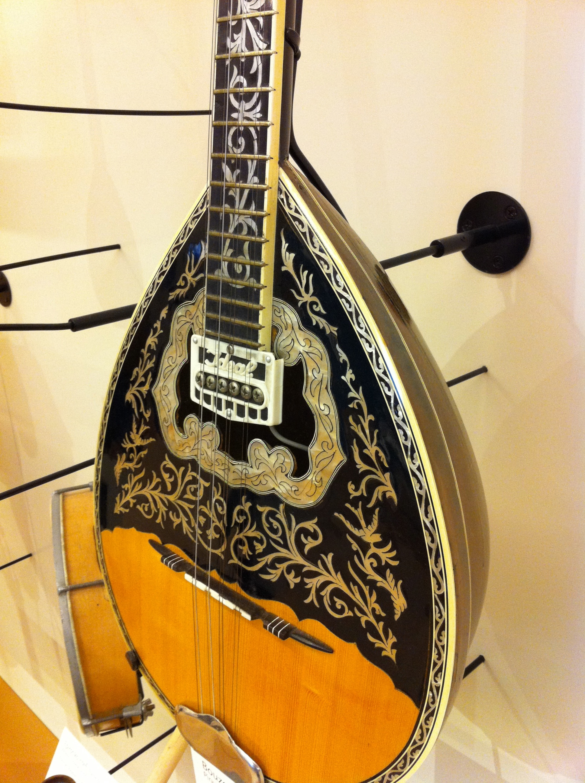 My first awareness of the bouzouki was Zappa’s “Canard du Jour”.